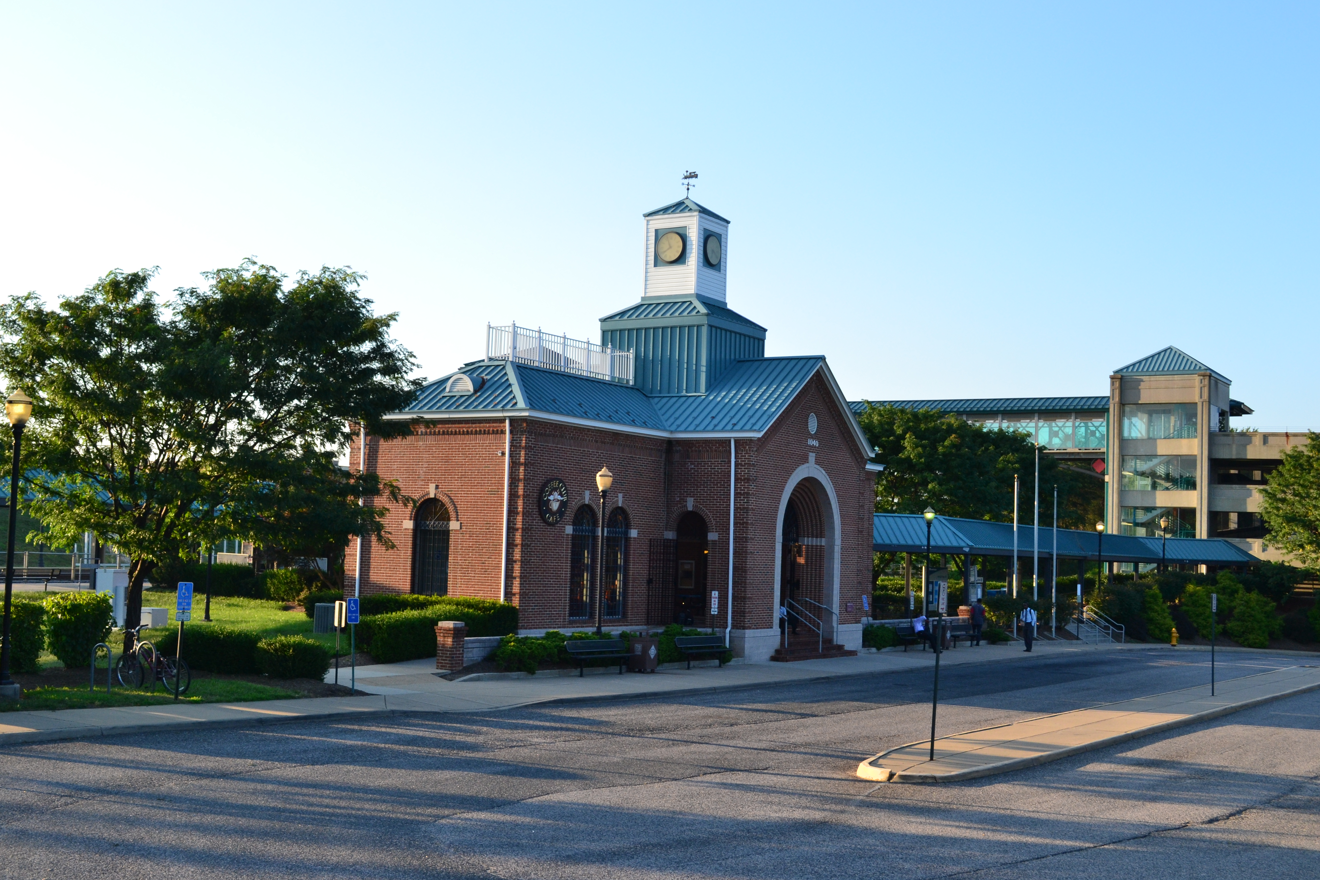 Woodbridge, Virgina Railway Station